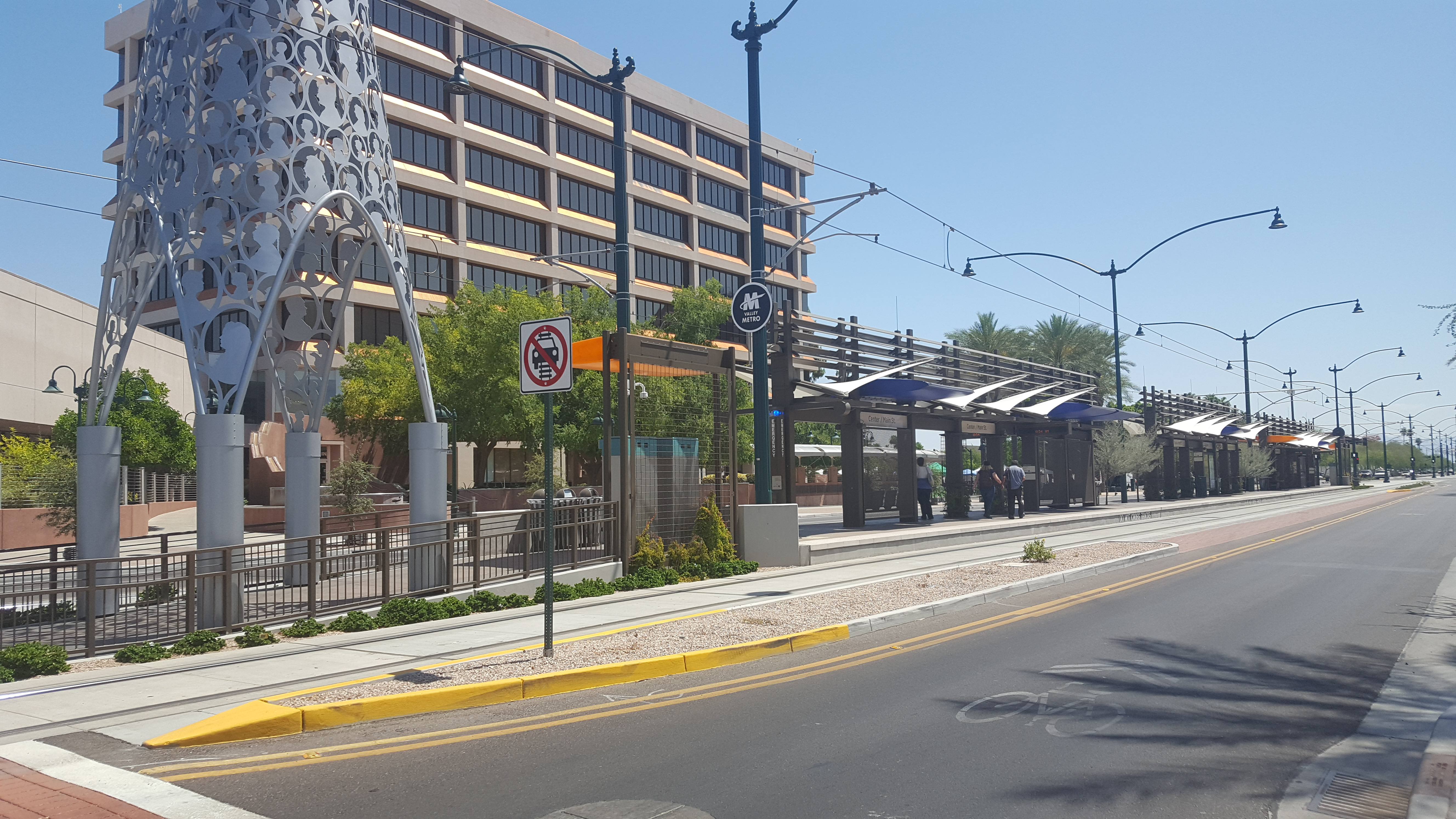 The Center/Main St Valley Metro Rail light rail station. Mesa City Hall is seen in the background. Mesa Arts Center is directly across Main Street and not seen in this view.